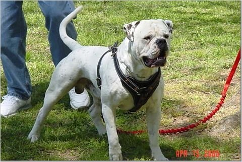 dog pic